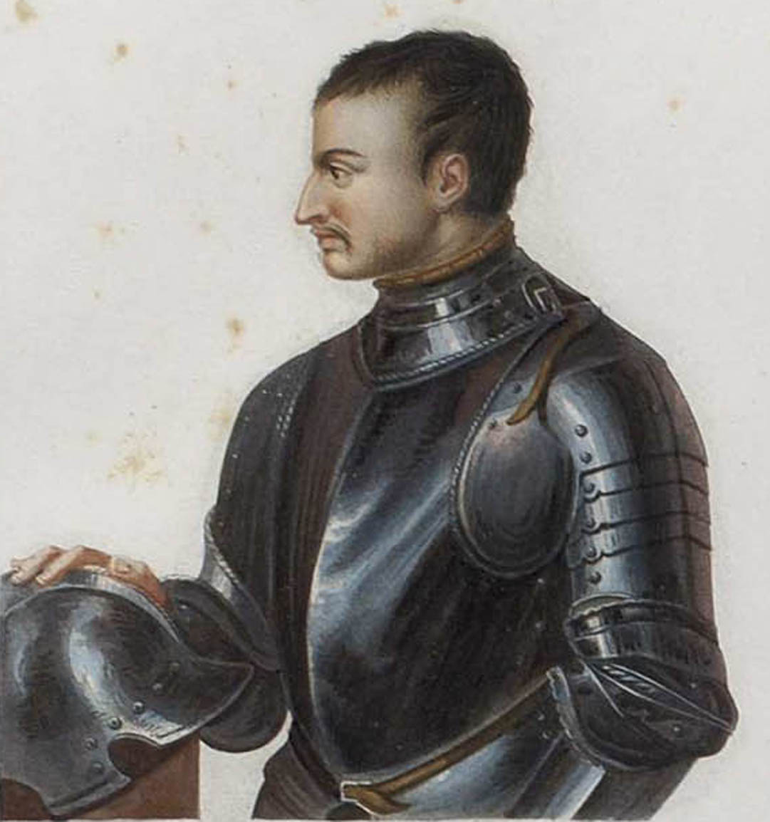 Giovanni de Medici, delle Bande Nere